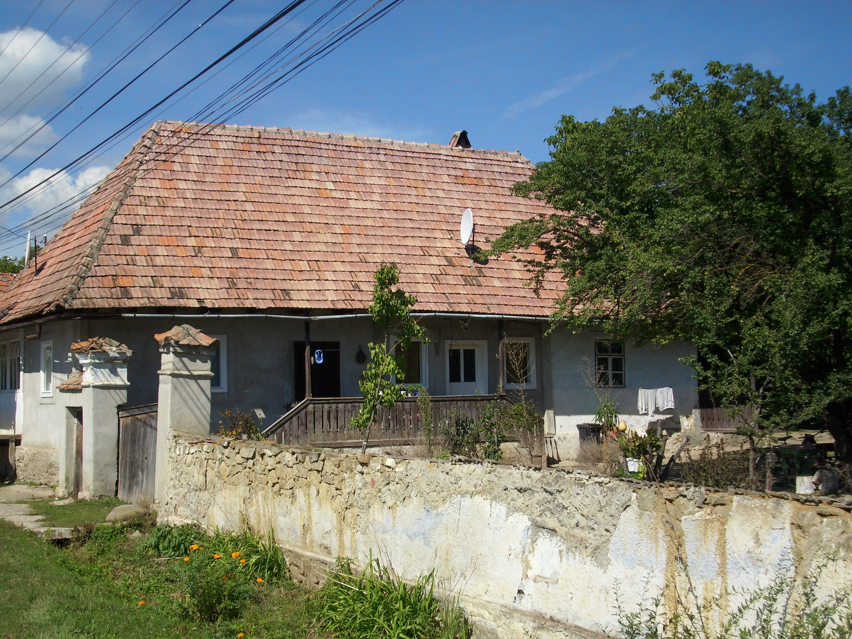 It's an old house made in the XIX century. This picture was taken in 2013 september.